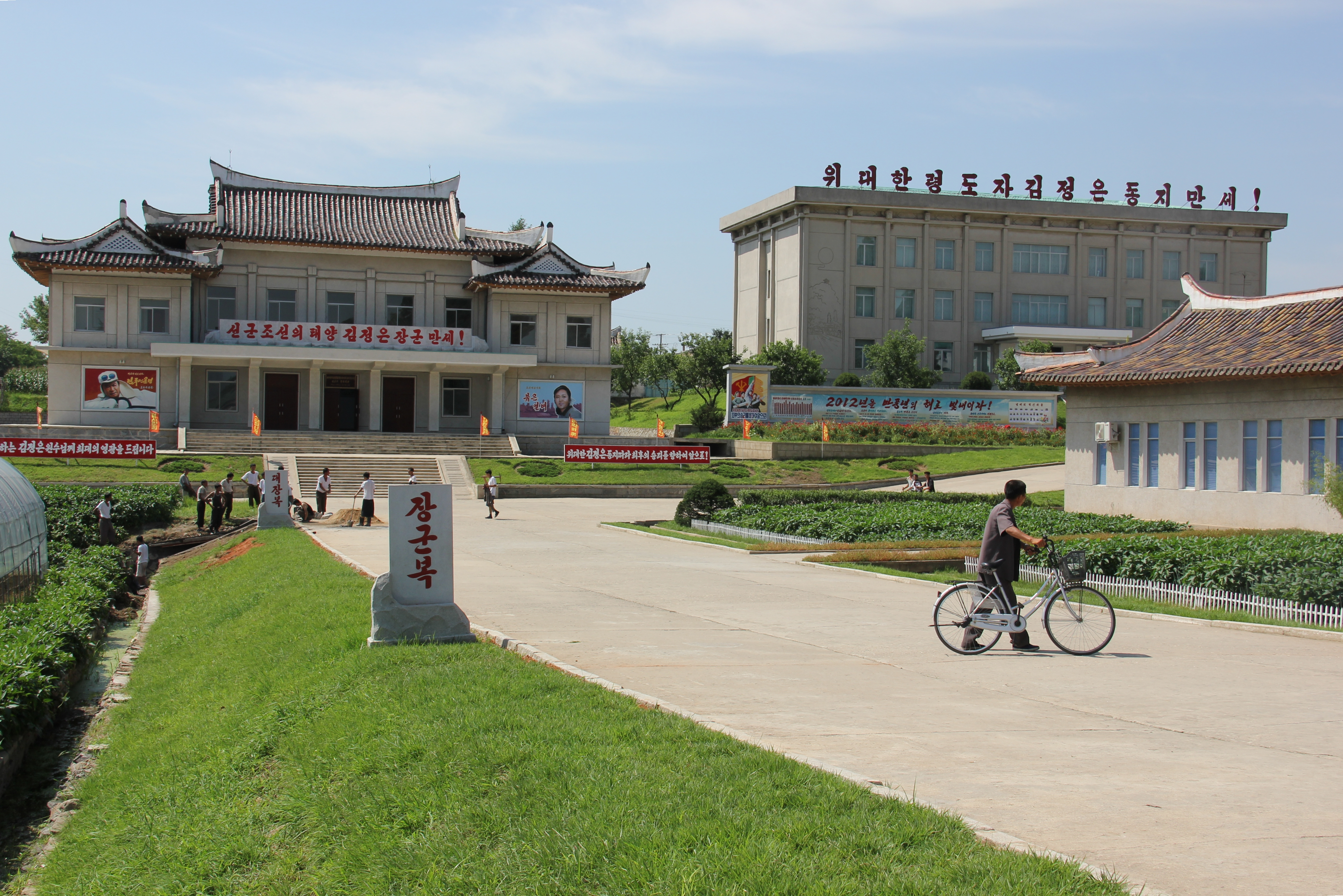 Chongsan-ri Cooperative Farm